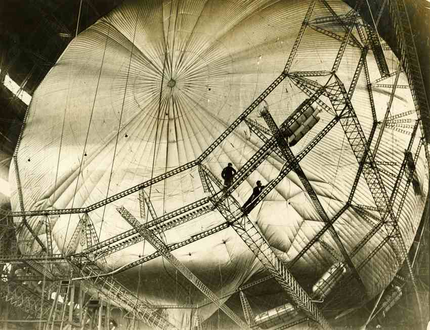 Photograph of R101 airship under construction